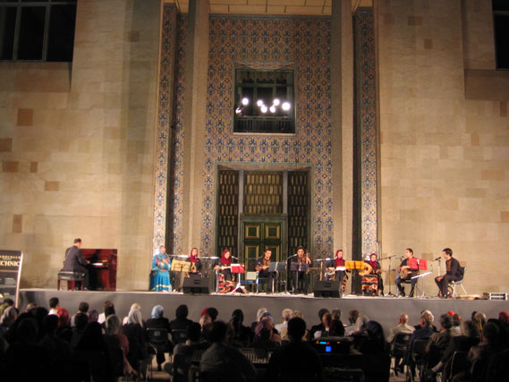 Musical Classical Chamber Persian Musical Ensemble, instrumental Performance